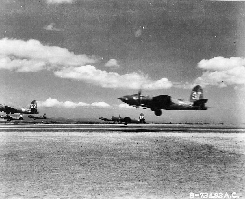 B-26 Marauders from the 440th Bomb Squadron, 319th Bomb Group, 12th Air Force taking off from Decimomannu Airfield, Sardina. The group was trying these 6-plane take offs to save time forming up for missions.